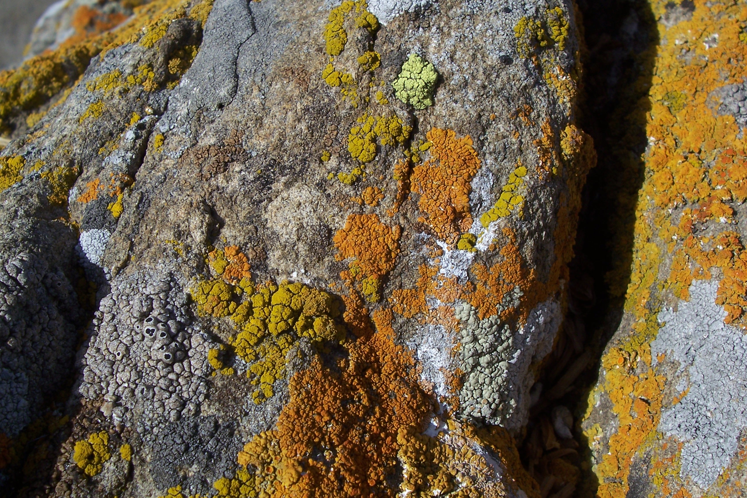 Different Lichens on rocks. "Hengestone" - Rock formation in the hills of Fremont, California.